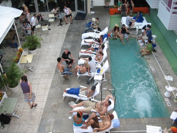 Party at Historic Clinton Hotel Miami Beach